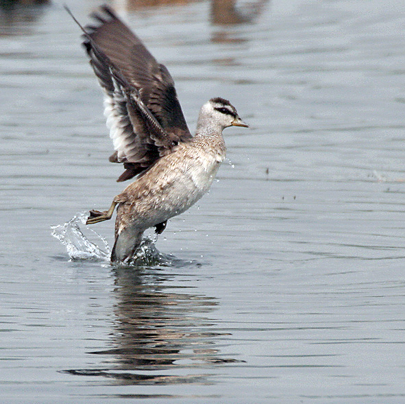 Cotton Pgymy Goose (Nettapus coromandelianus) in Kolkata, West Bengal, India.